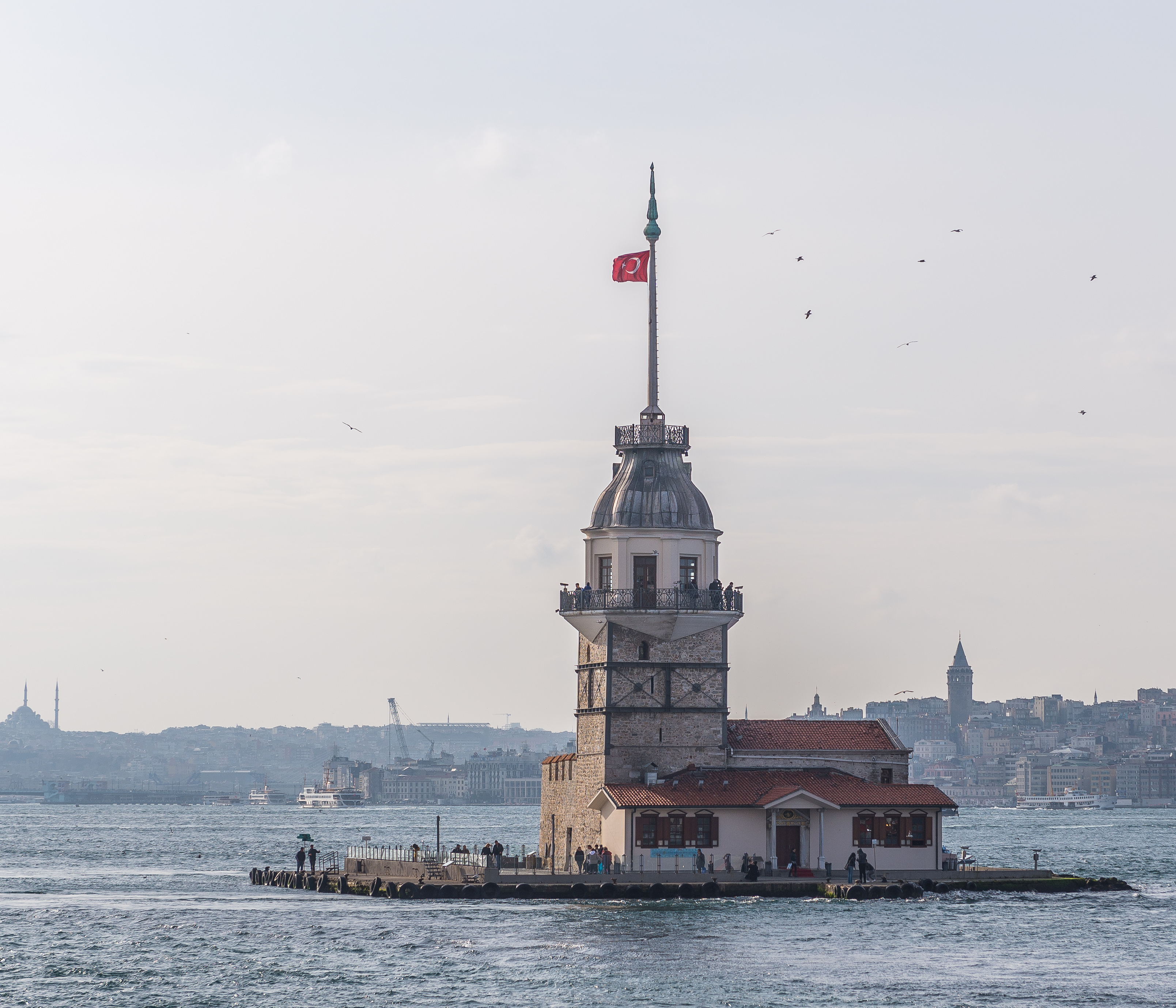 Kız Kulesi (Maiden's Tower), off the coast of Üsküdar, Istanbul.